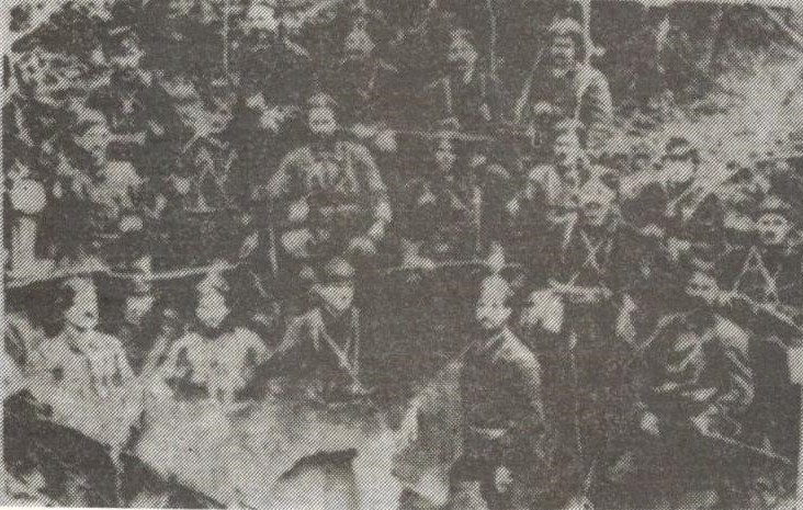 Macedonian revolutionaries in Radovish region